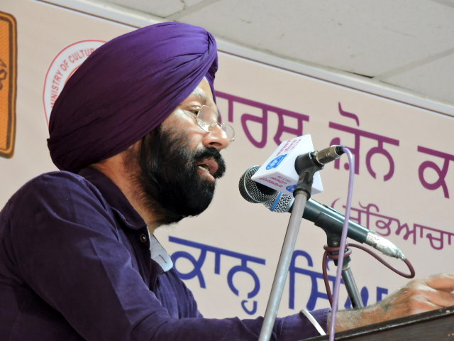 Darshan Butter Punjabi Language poet ,Punjab,India